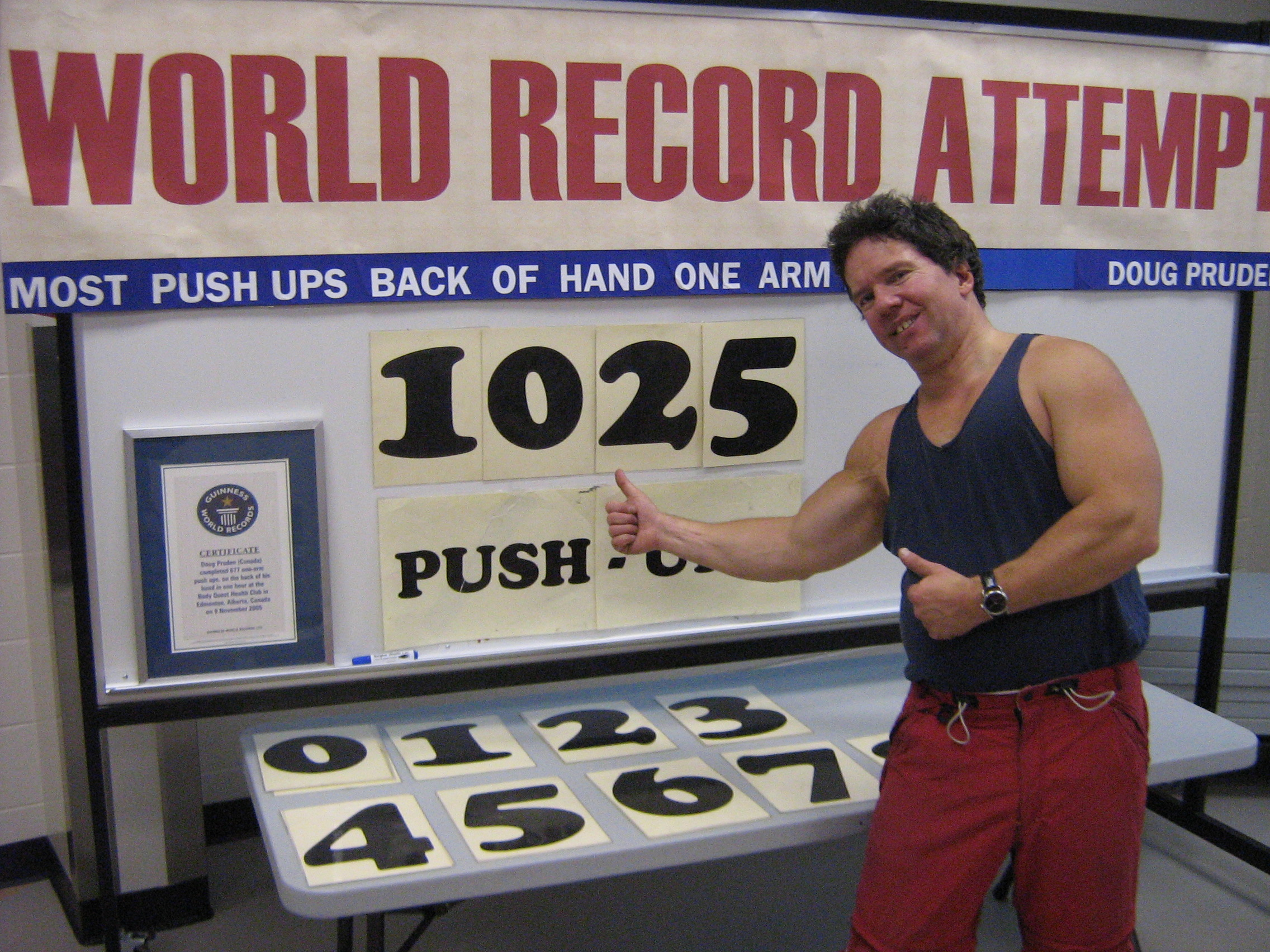 Doug Pruden did a world record 1025 back of the hand push ups in 1 hour at the Don Wheaton Family YMCA in Edmonton, Canada.